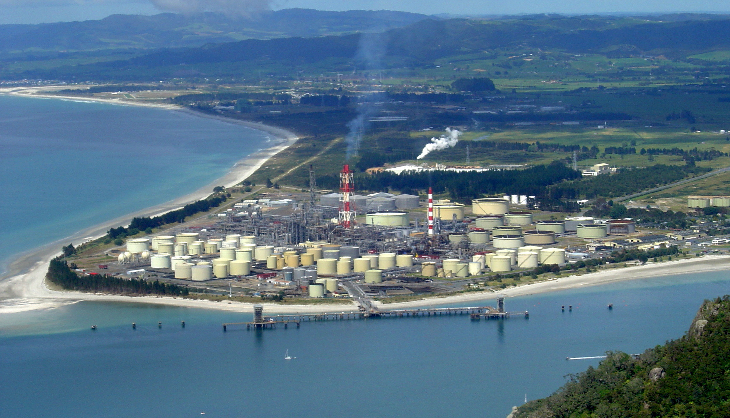 Marsden Point Oil Refinery, New Zealand, viewed from atop Mt Manaia near the Whangarei Heads.